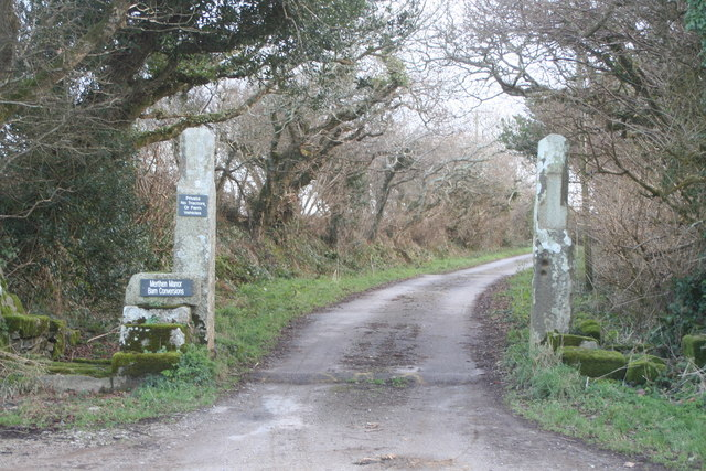 Track leading to Merthen Manor